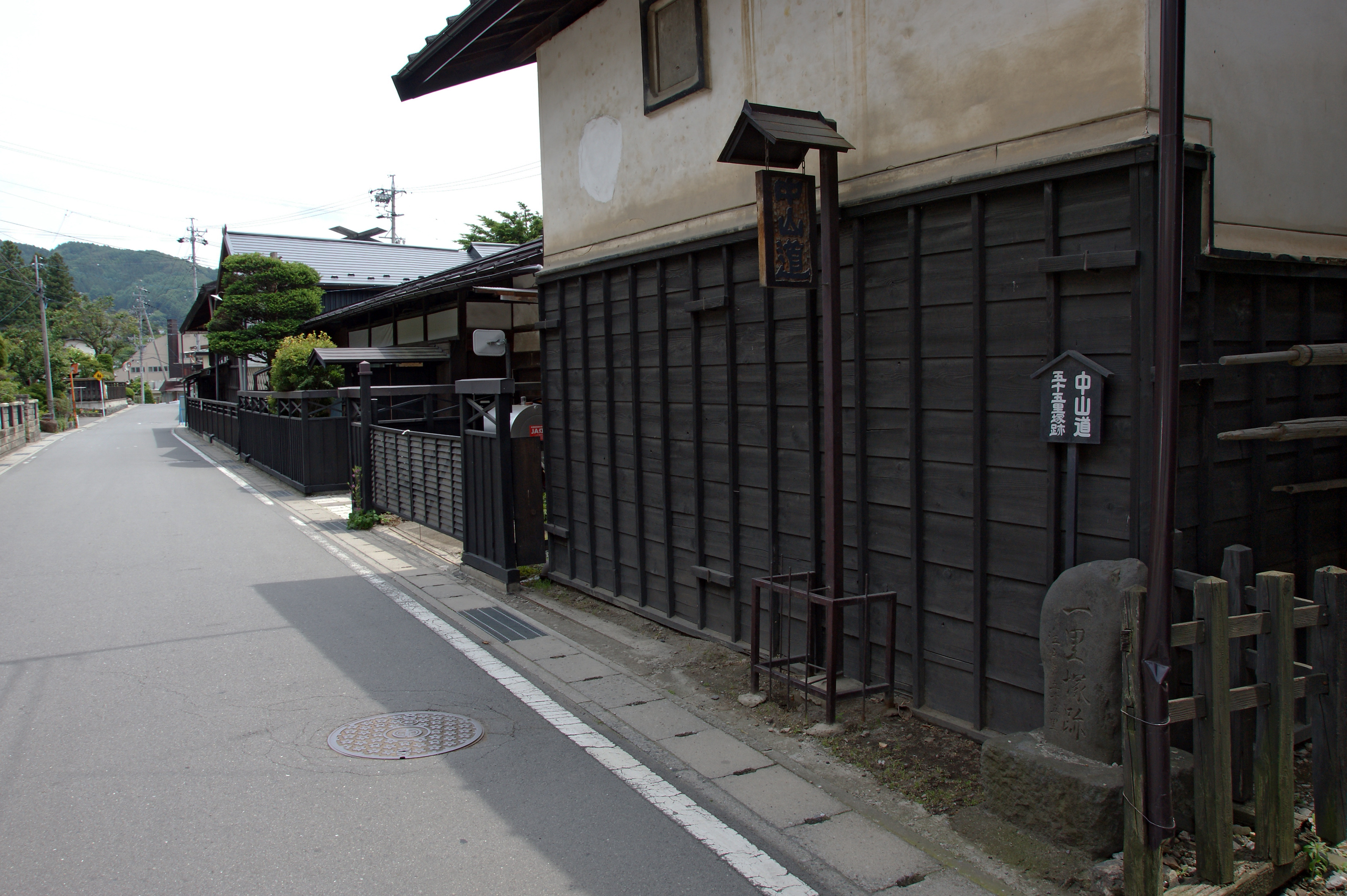 Nakasendo on Shimosuwa, Nagano prefecture, Japan